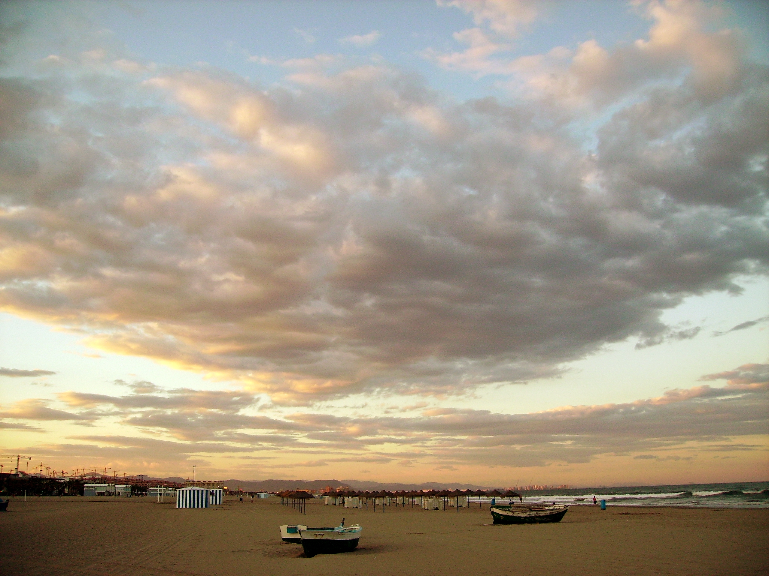 View from Malvarrosa Beach in the city of Valencia (Valencian Community, Spain).